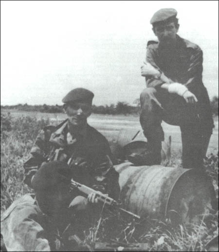 Original description: "Defending the airfield at Stanleyville" [1]